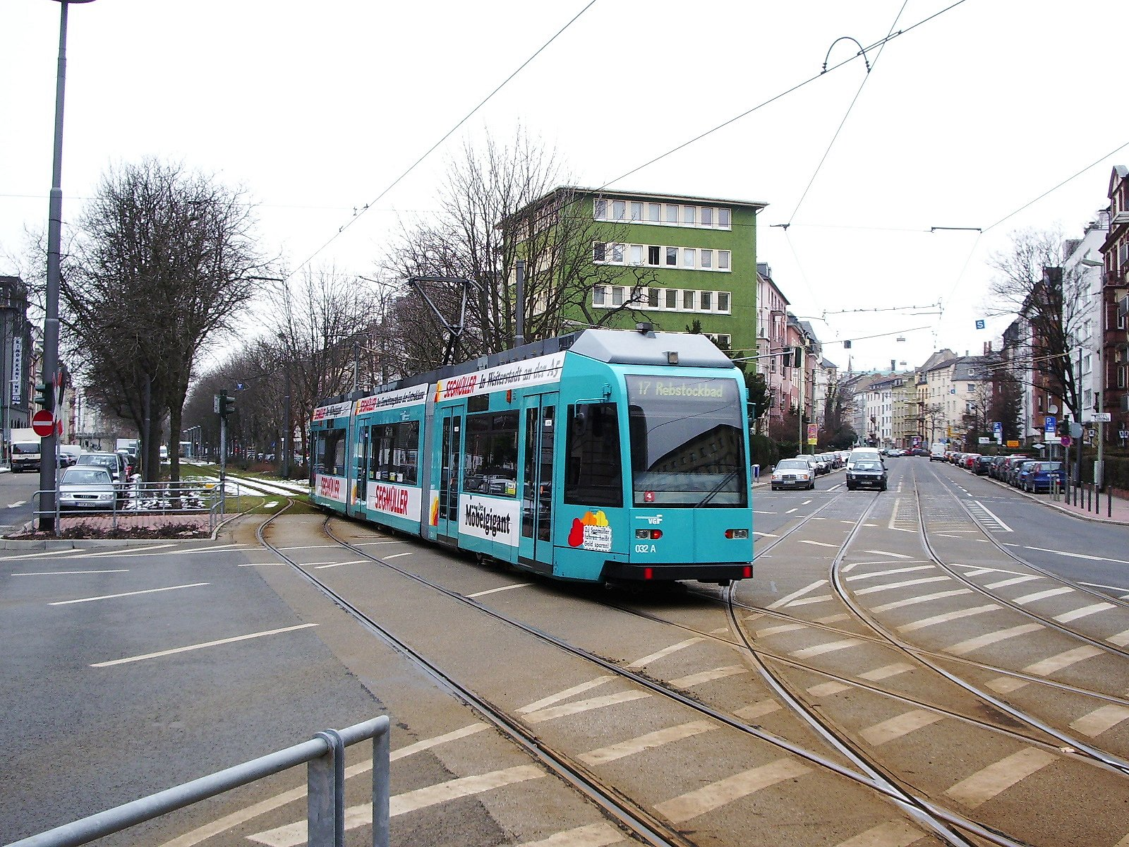 Frankfurt am Main: VGF R032 on line 17 direction Rebstockbad, near tram stop Varrentrappstraße. Photo taken by myself at March 08, 2006